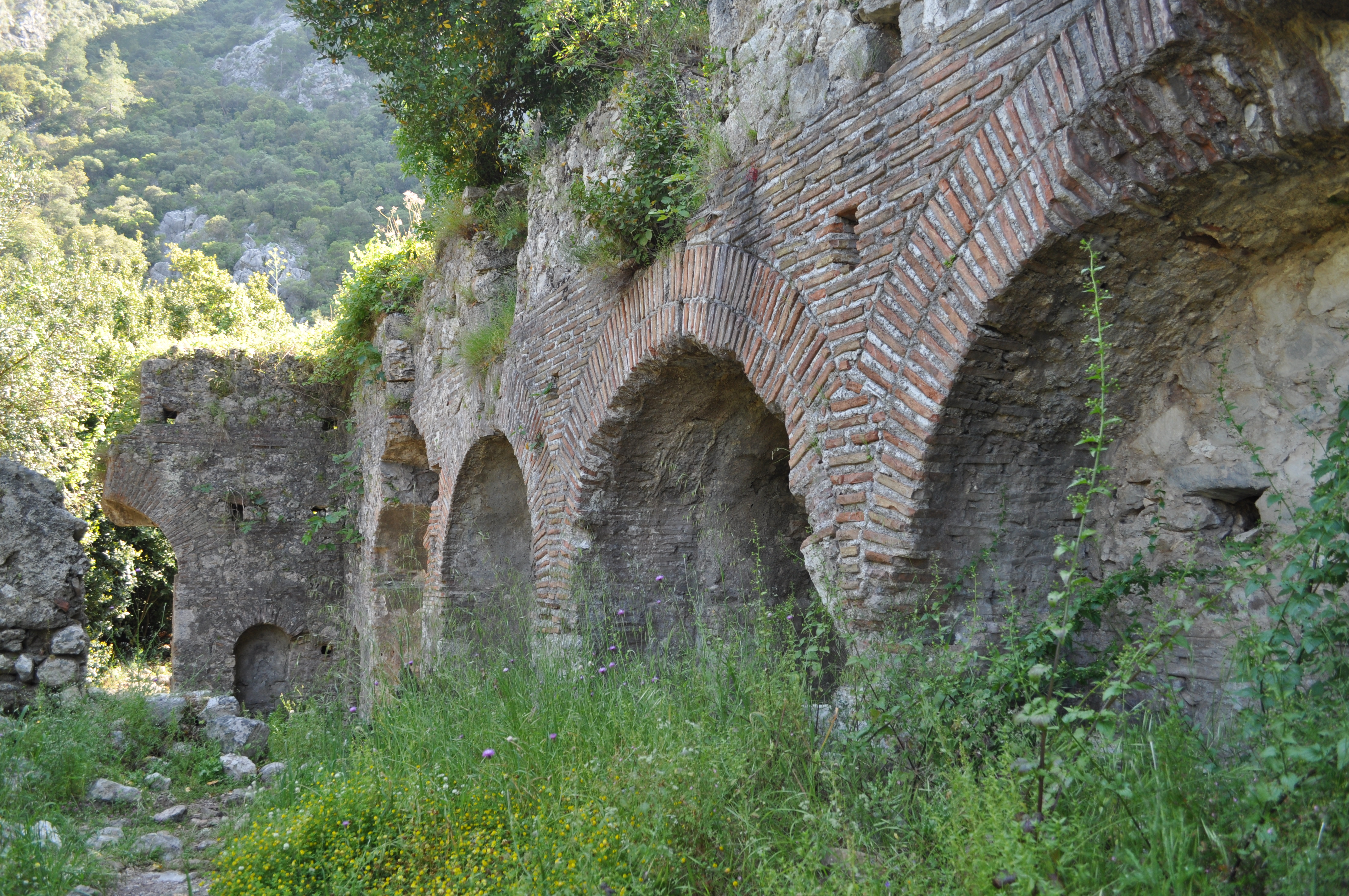 Olympos: Roman bath